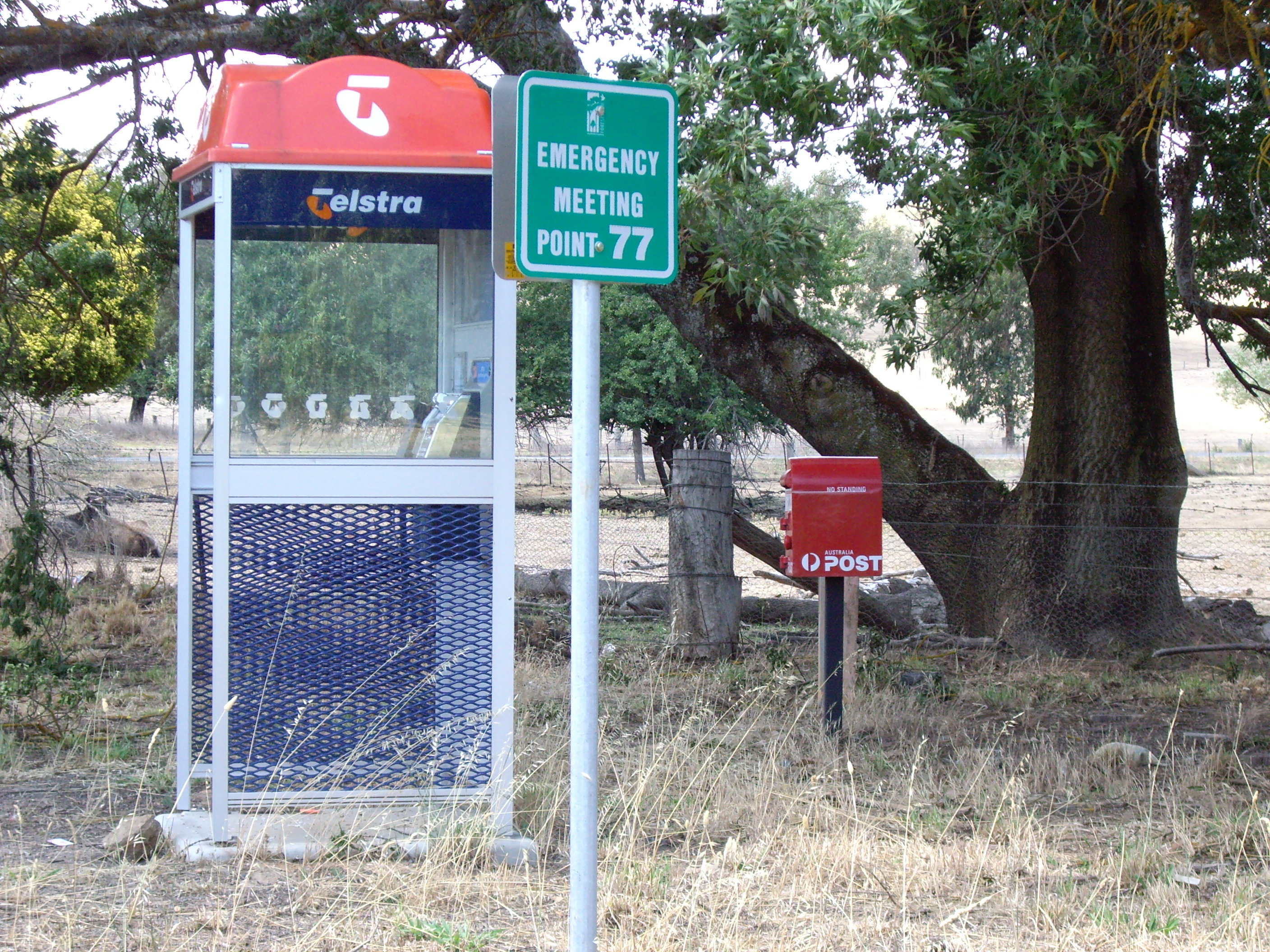 Facilities at Carabots